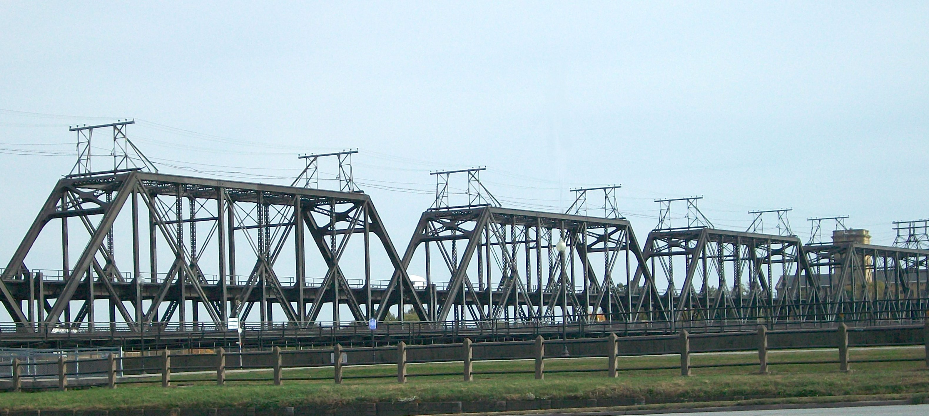 Government Bridge connecting Davenport, Iowa and Rock Island, Illinois